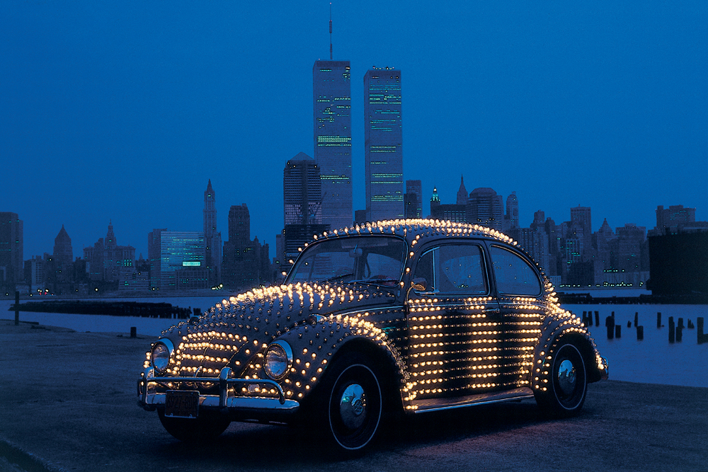 Lightmobile designed and photographed by Eric Staller